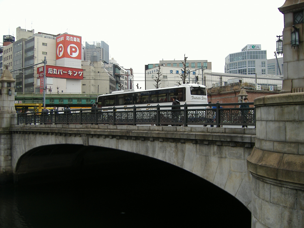 Manseibashi(Tokyo,Japan)